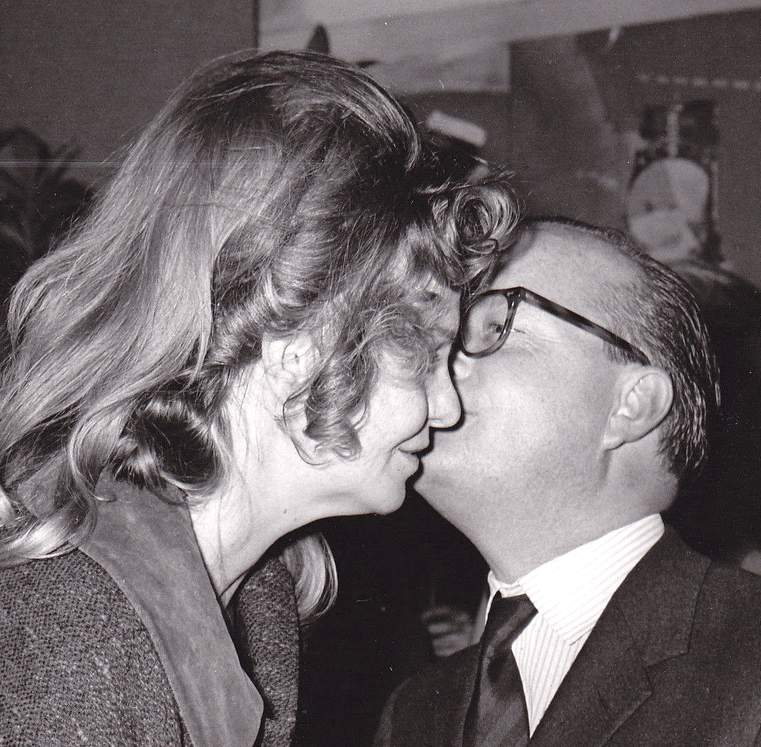 Geraldine Page meets Truman Capote, 1966